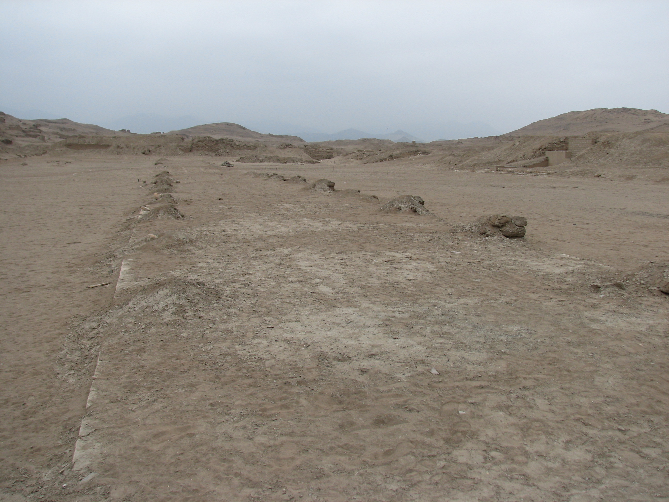 Pachacamac archaeological site in Peru